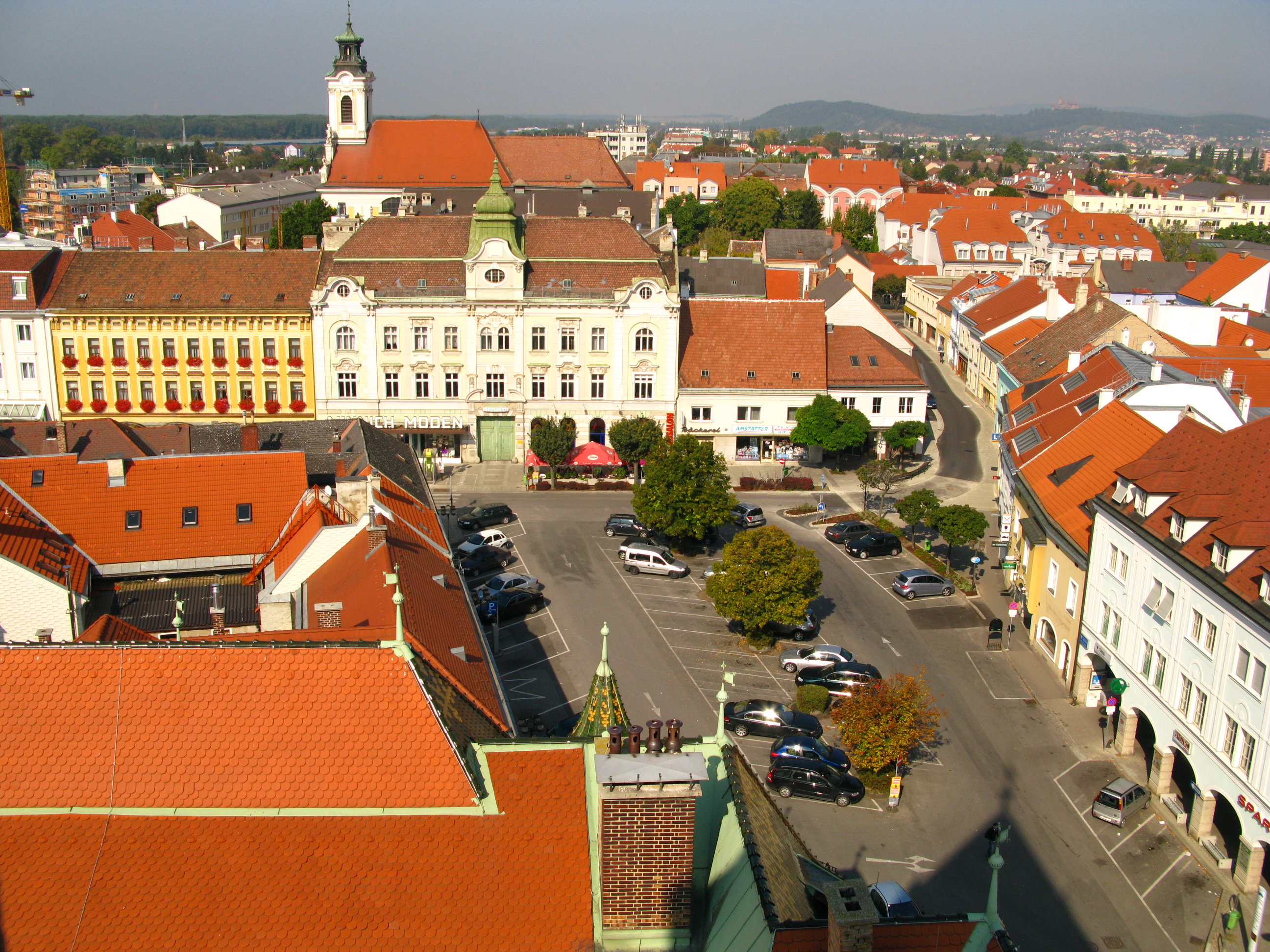 View towards northwest from the city hall tower (build around 1440) of Korneuburg / near Vienna / Austria / EU.